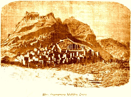 The ruins of the Capital Sis. The overlooking Watchtowers are high above.